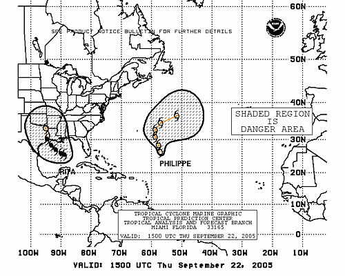 Example of the 1-2-3 rule, with predictions shown for the 2005 storms, Rita and Philippe.